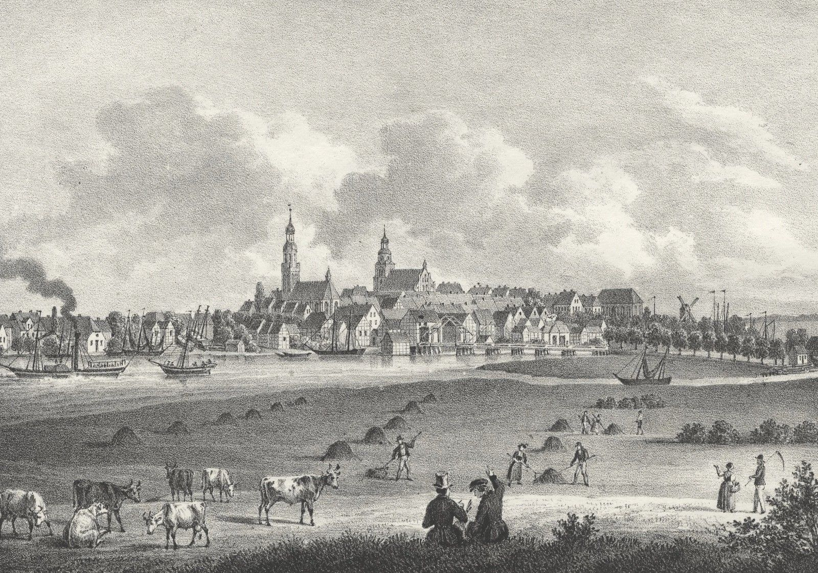 Wolin in XIX cent.